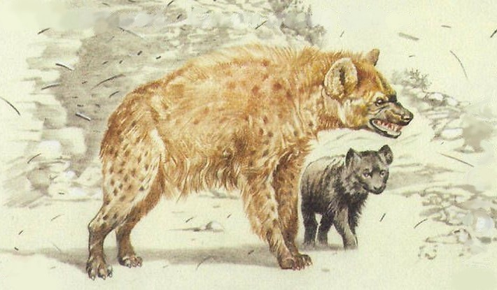 Cave hyena depicted on a stamp of Moldova